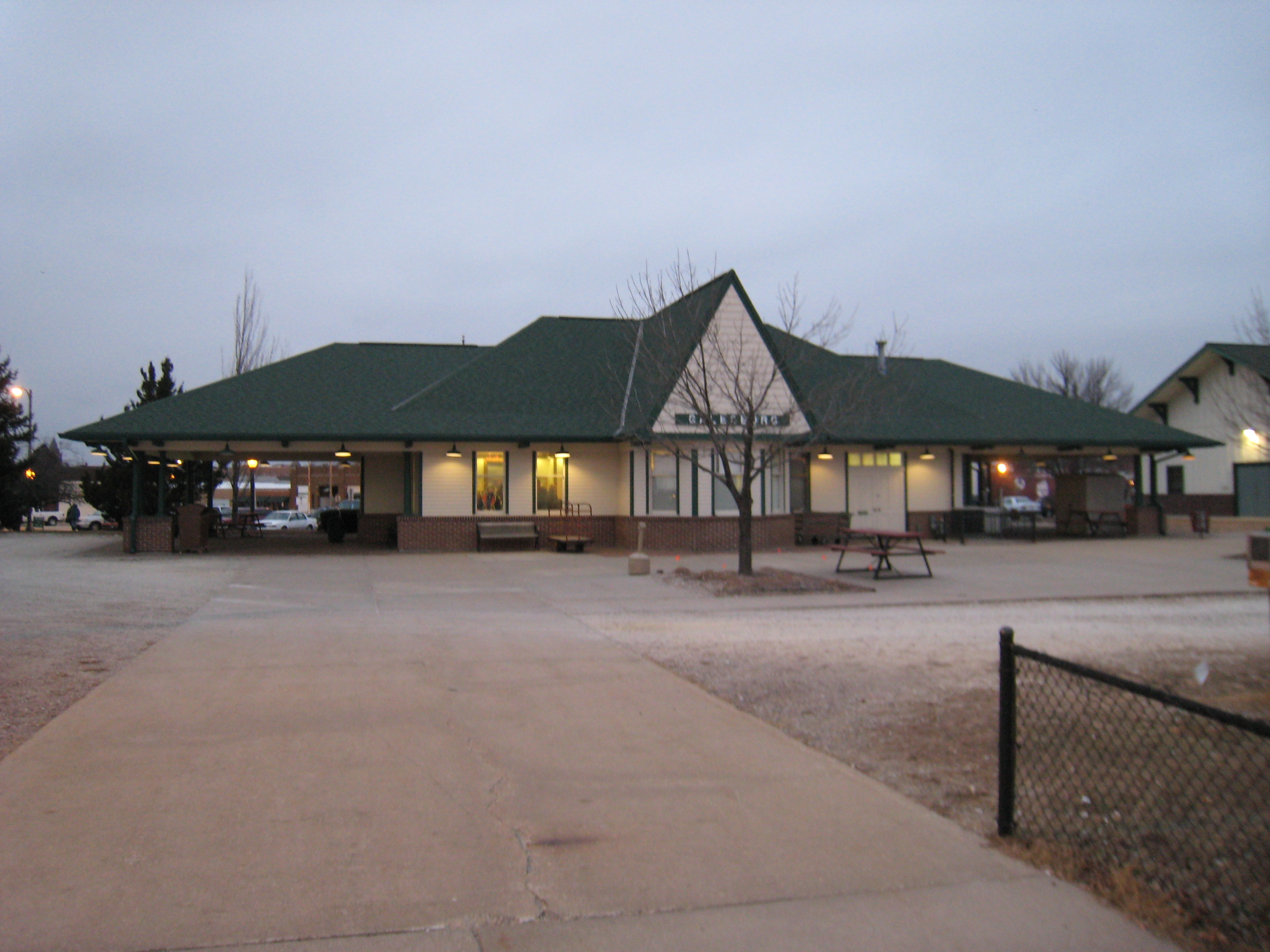 Looking at the station house from the platforms at Galesburg (Amtrak station).